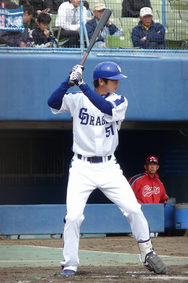 Issei Nakamura, outfielder of the Chunichi Dragons, at Nagoya Baseball Stadium